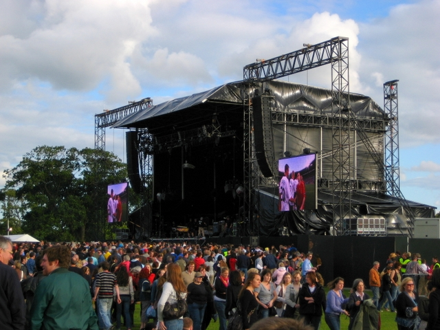 Concert stage, Malahide Castle Huge outdoor stage erected for a Neil Young concert in the grounds of Malahide Castle.